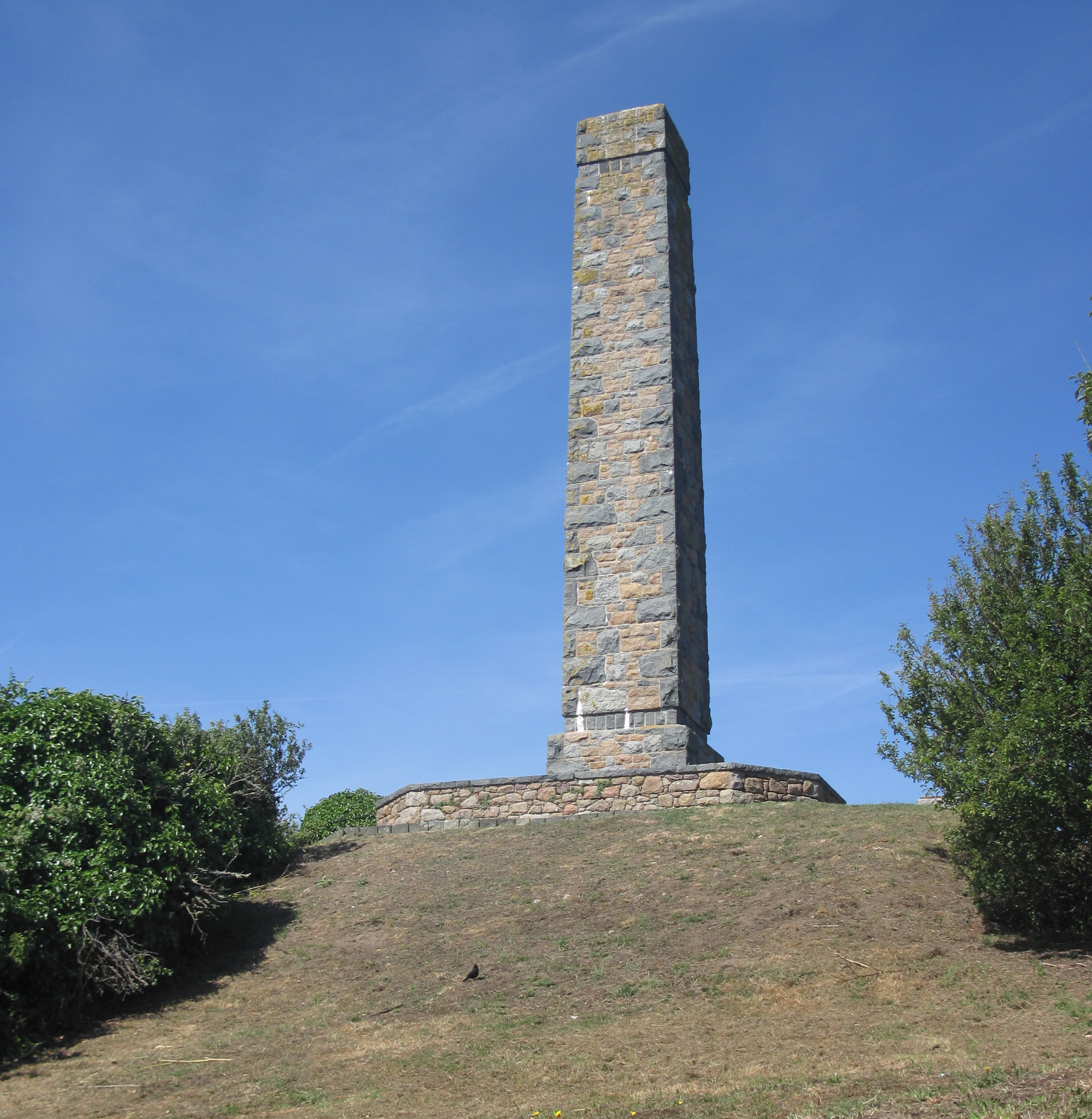 Guernsey, July 2011: Doyle Monument